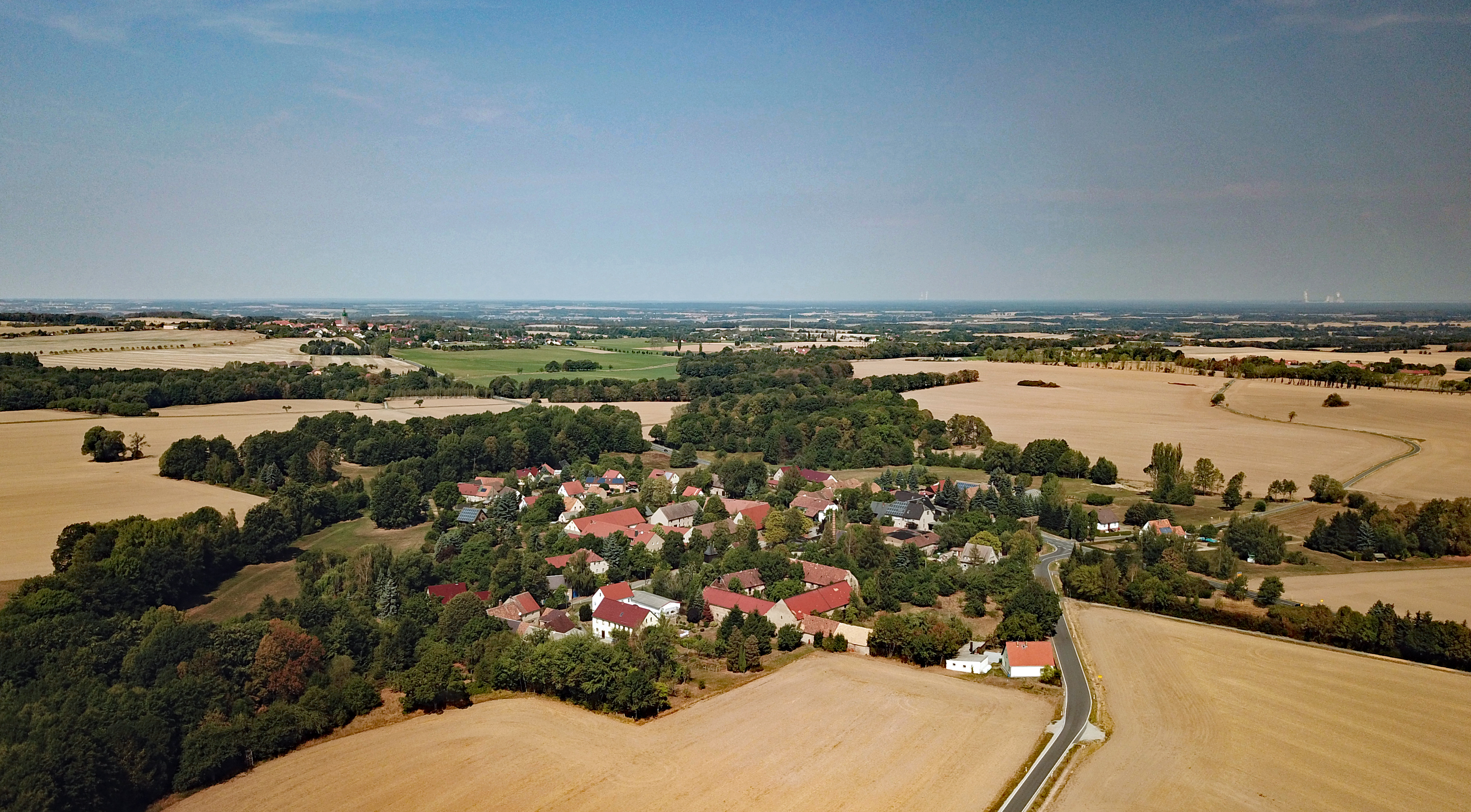 Plotzen (Hochkirch, Saxony, Germany) Hornjoserbsce: Powětrowy wobraz Błócan